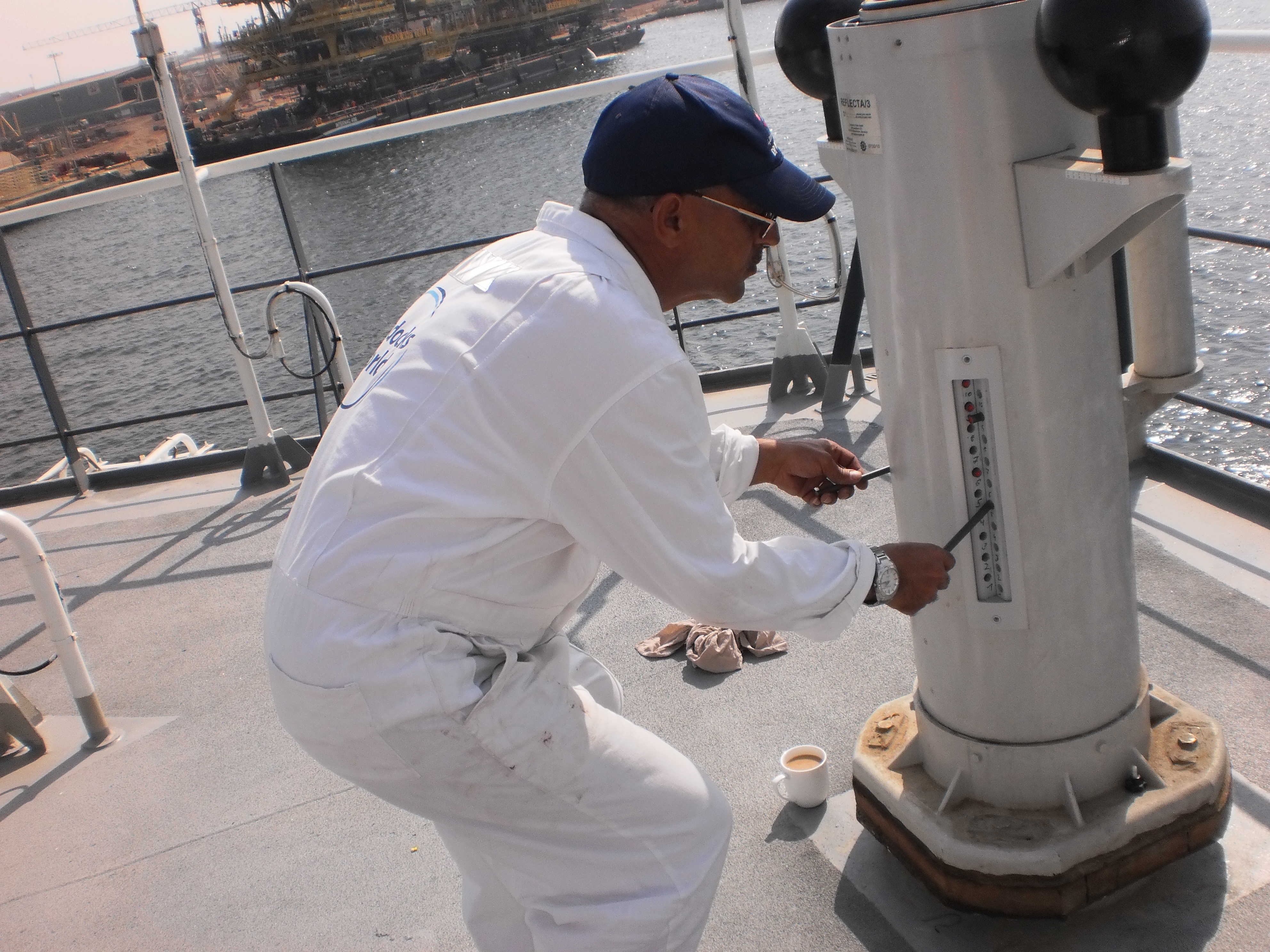 Compass adjuster set small magnets to compensate ship's magnetic field